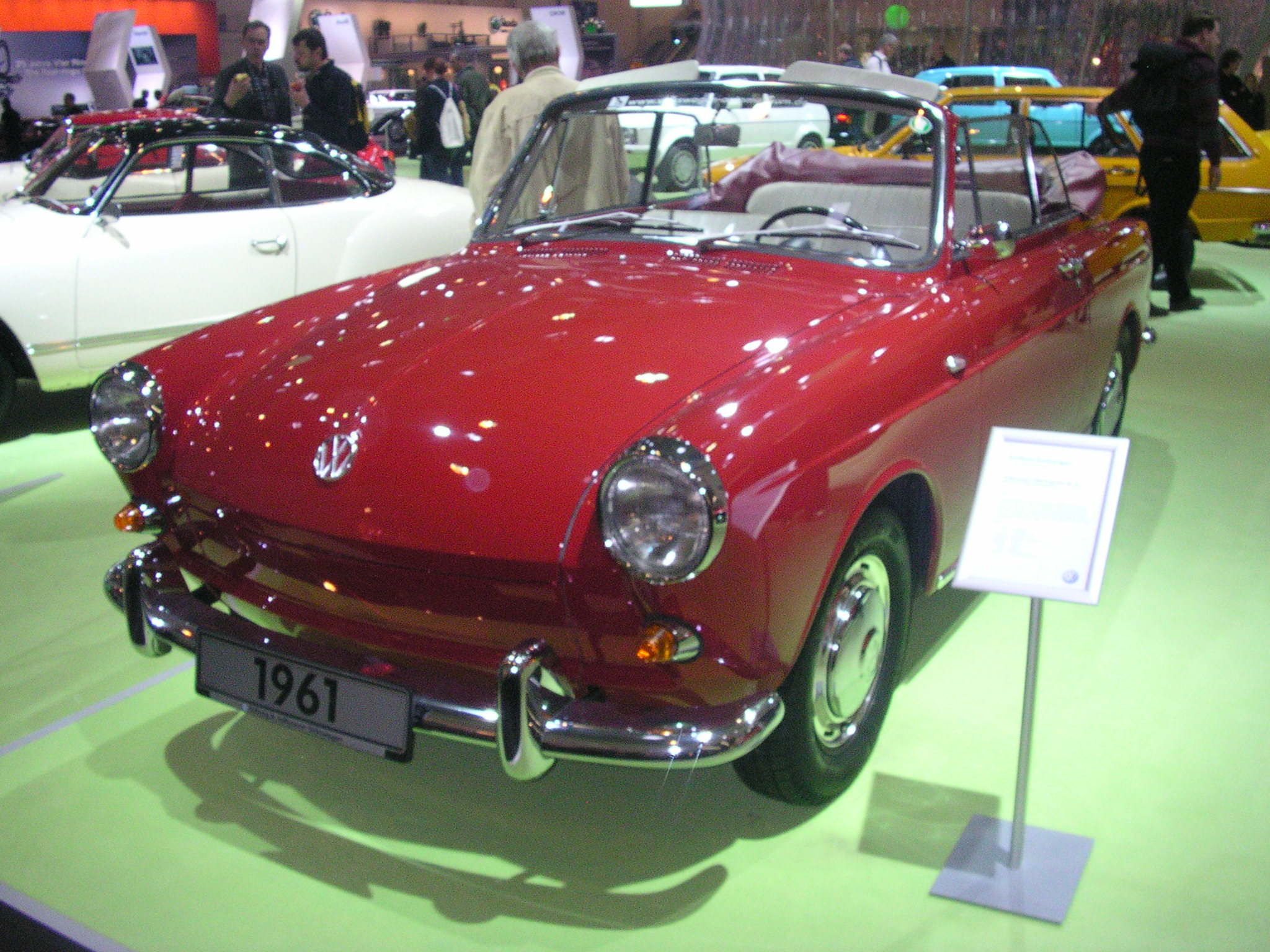 Essen Techno-Classica 2007, VW 1500 Convertible